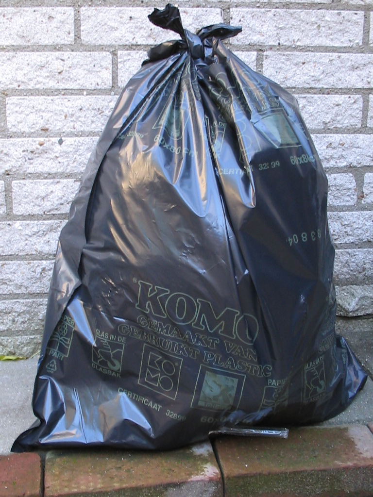 Rubbish bag.